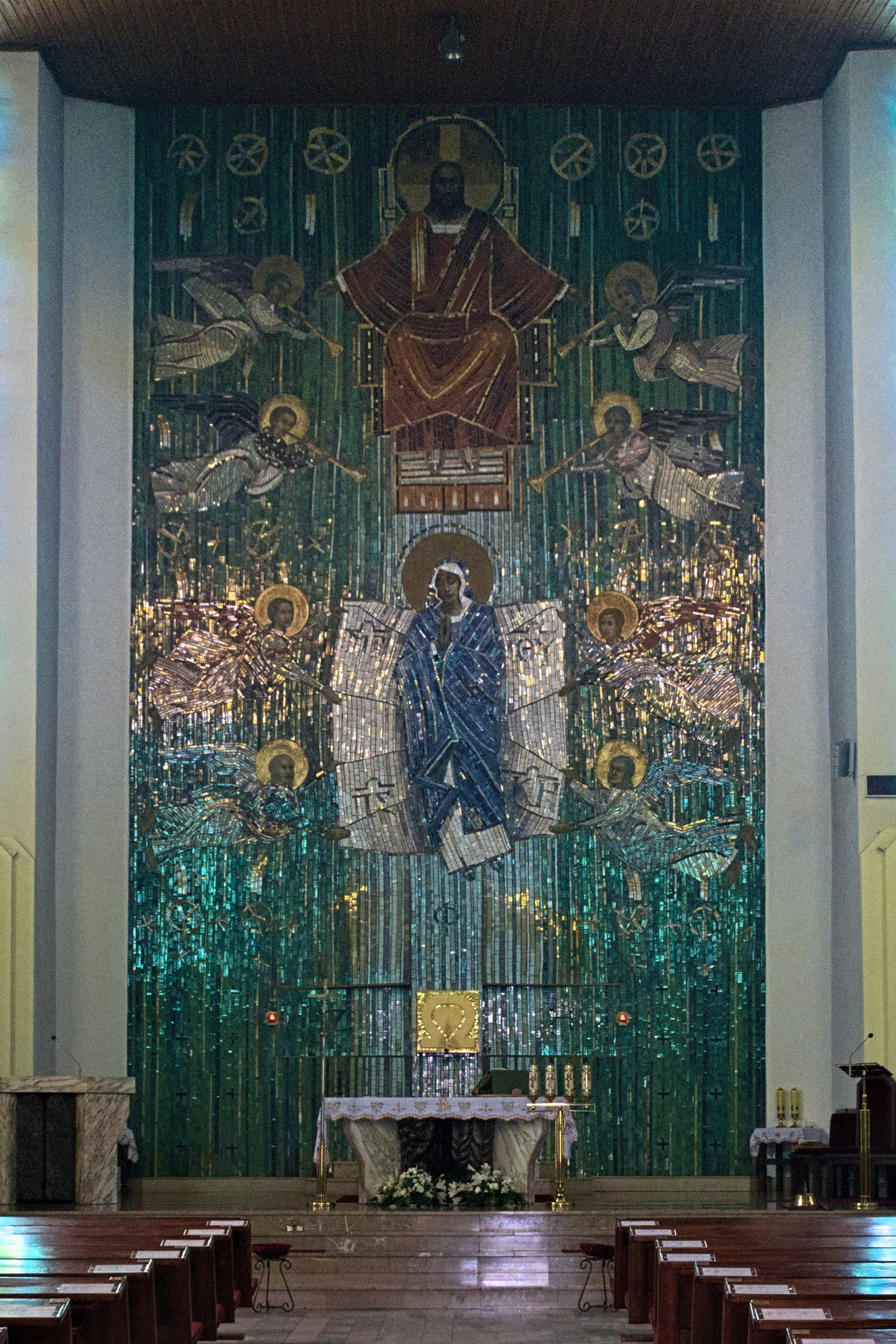 altar and mosaic in Assumption of the Blessed Virgin Mary church in Radzionków, Rojca, Poland, view through internal doors